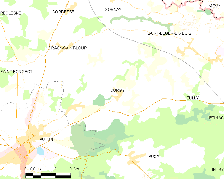 Map of French municipality